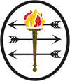 Coat of arms of General Madariaga Partido, in Buenos Aires Province.